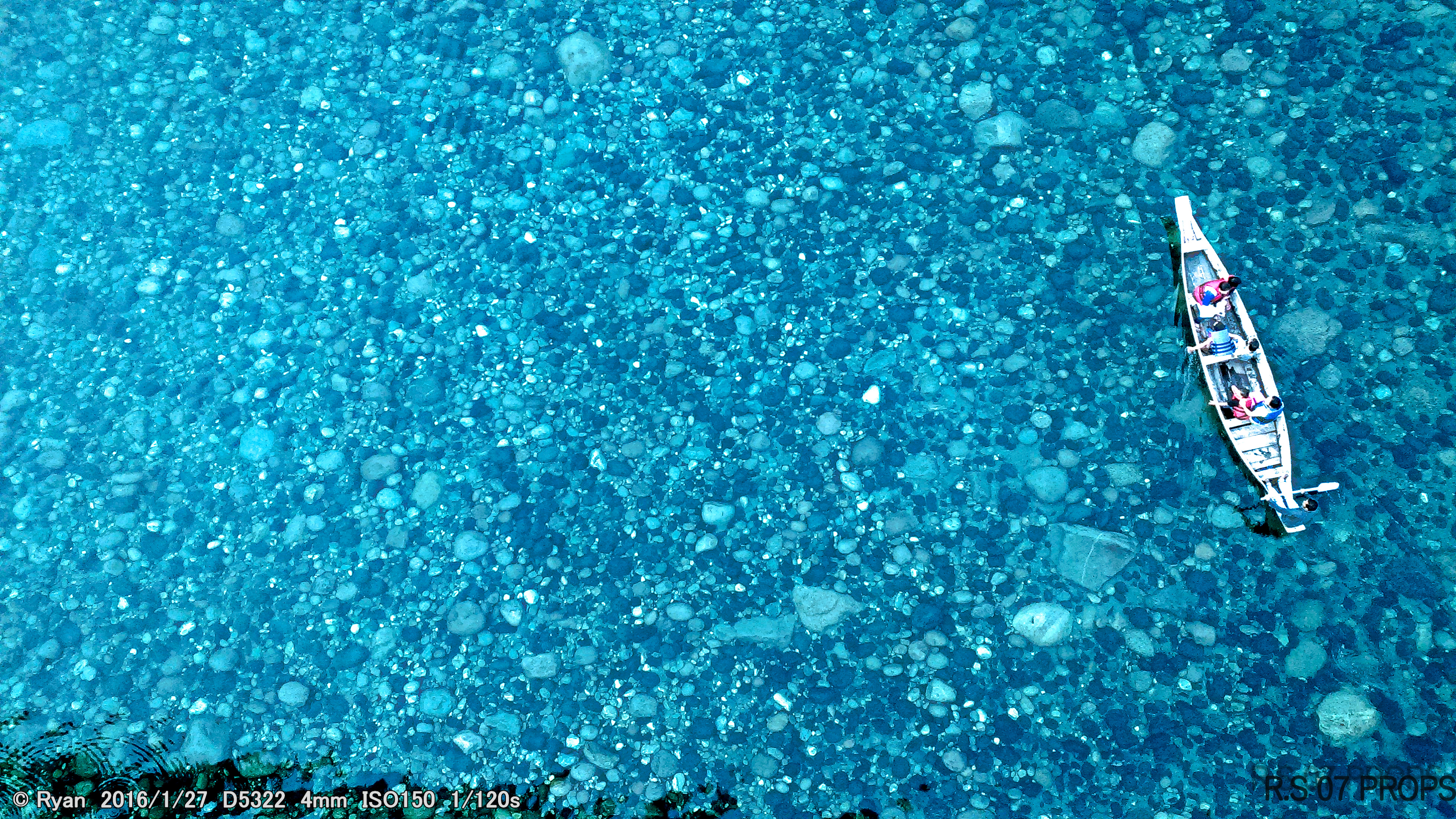 UMNGOT RIVER.Take From a SUSPENSION bridge. Clear blue WATER.